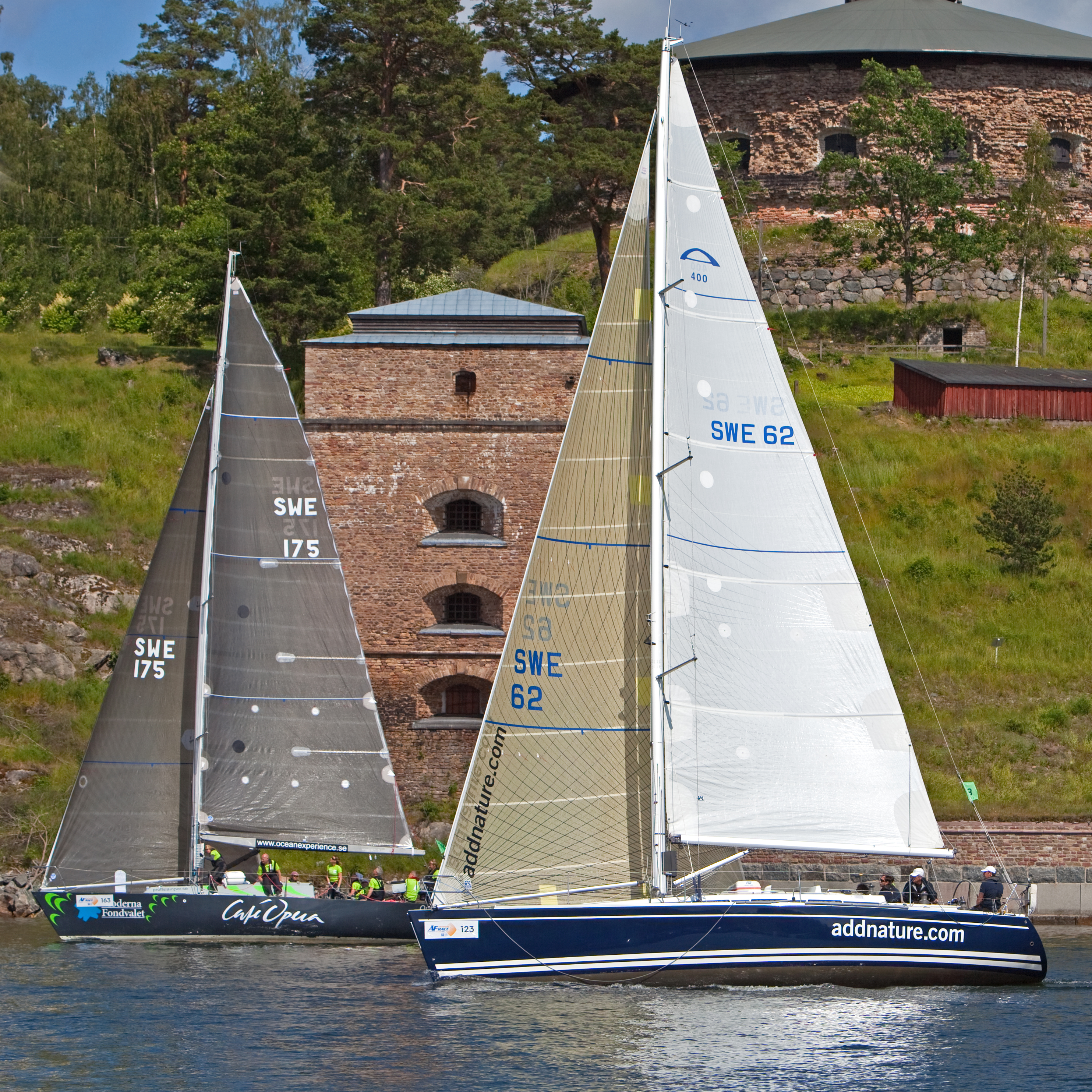 Gotland Runt or the AF Offshore Race from Stockholm around Gotland and back to Sandhamn